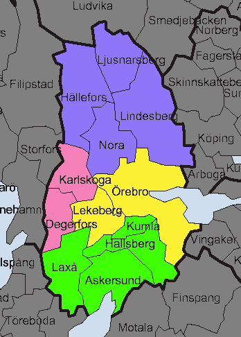 electional division for Örebro Landsting